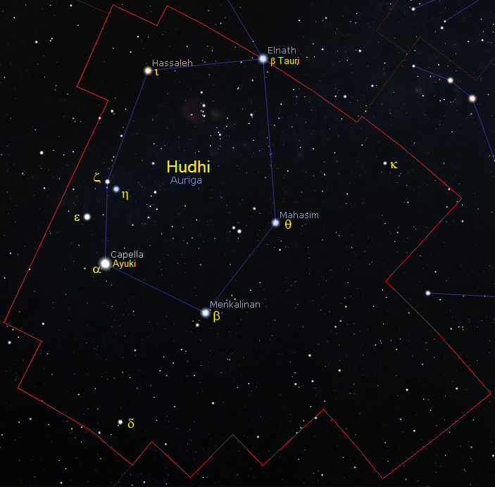 Capella in Auriga constellation, as seen from East africa, Swahili labeled Kiswahili: Nyota ya Ayuki (Capella) katika Hudhi (Auriga), jinsi inavyoonekana kutoka Tanzania